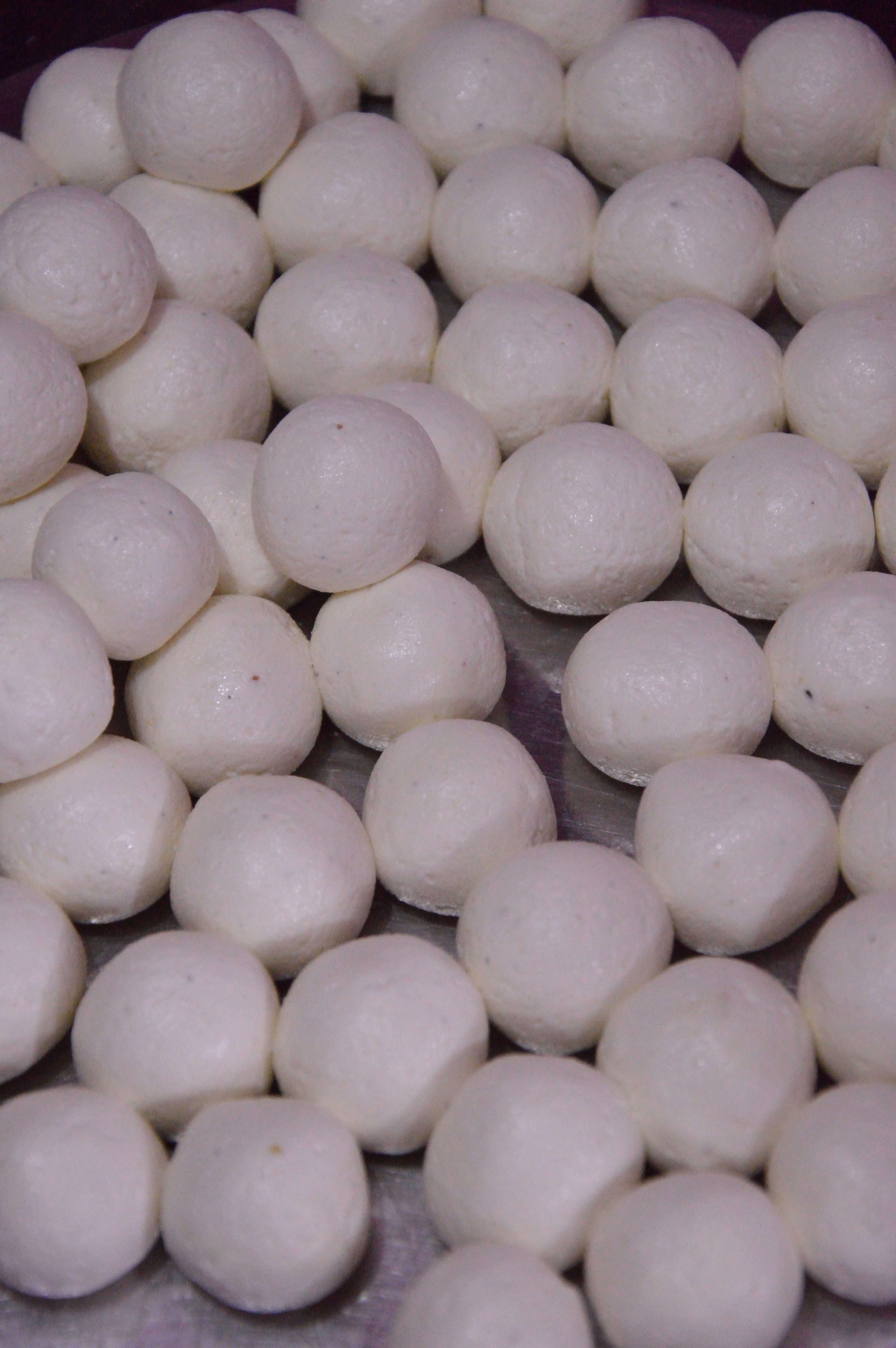 This photpgraph has been taken at the Ma Tilottama Sweets at the Holiday Home market, New Digha, East Midnapore.